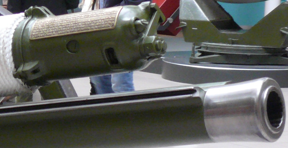 Photograph showing closeup of hydropneumatic recuperator extension above the barrel of British QF 18 pounder Mk II field gun, WWI vintage, at the Imperial War Museum, London. This gun served on the Western front between September 1916 and November 1917, was sent back to Britain to have its barrel relined after firing 16,153 rounds, and was sent back to France in March 1918 and served until the end of the war. See Image:QF18pdrMkIIHydropneumaticRecuperatorIWM3April2008.jpg for full image.